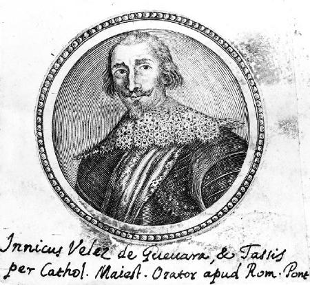 Íñigo Vélez de Guevara, seventh Count of Oñate and Count of Villamediana